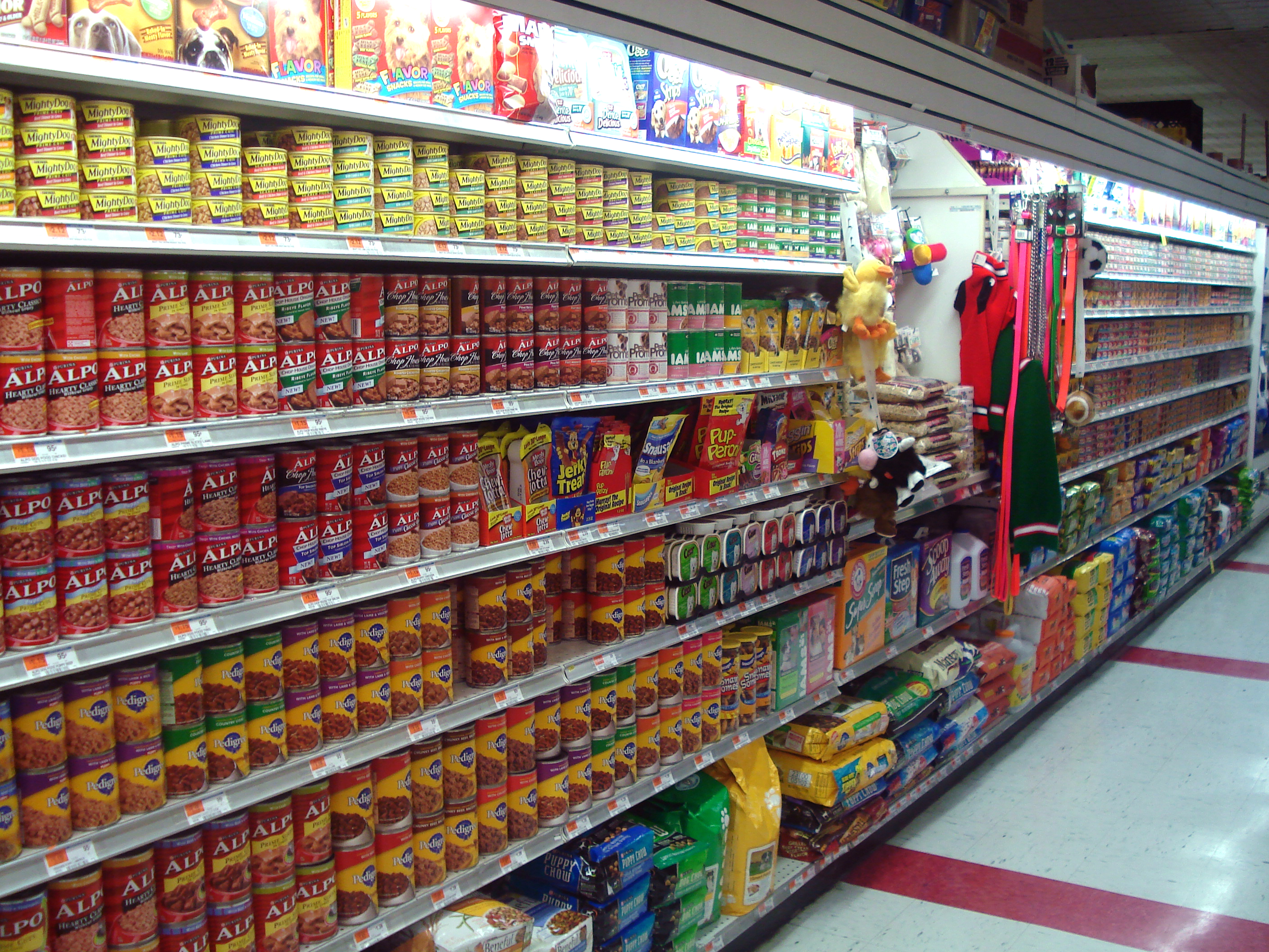 A pet food aisle at a supermarket in Brooklyn, New York City. Copyright 2007 Jeffrey O. Gustafson, released to Wikimedia Commons under the GFDL and CC-BY-SA-2.0.